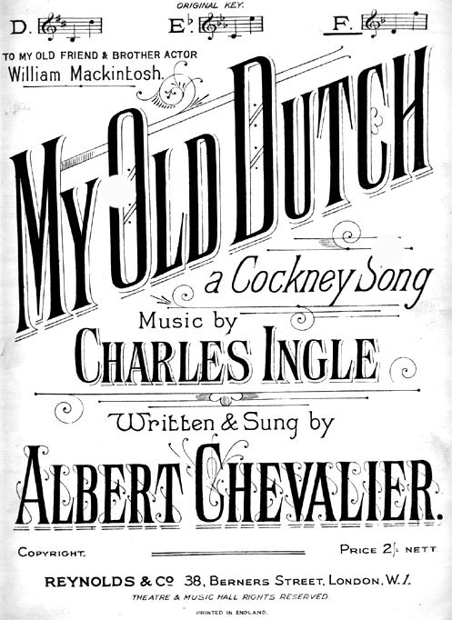 Scanned cover of the score to Albert Chevalier's "My Old Dutch" (1890s)